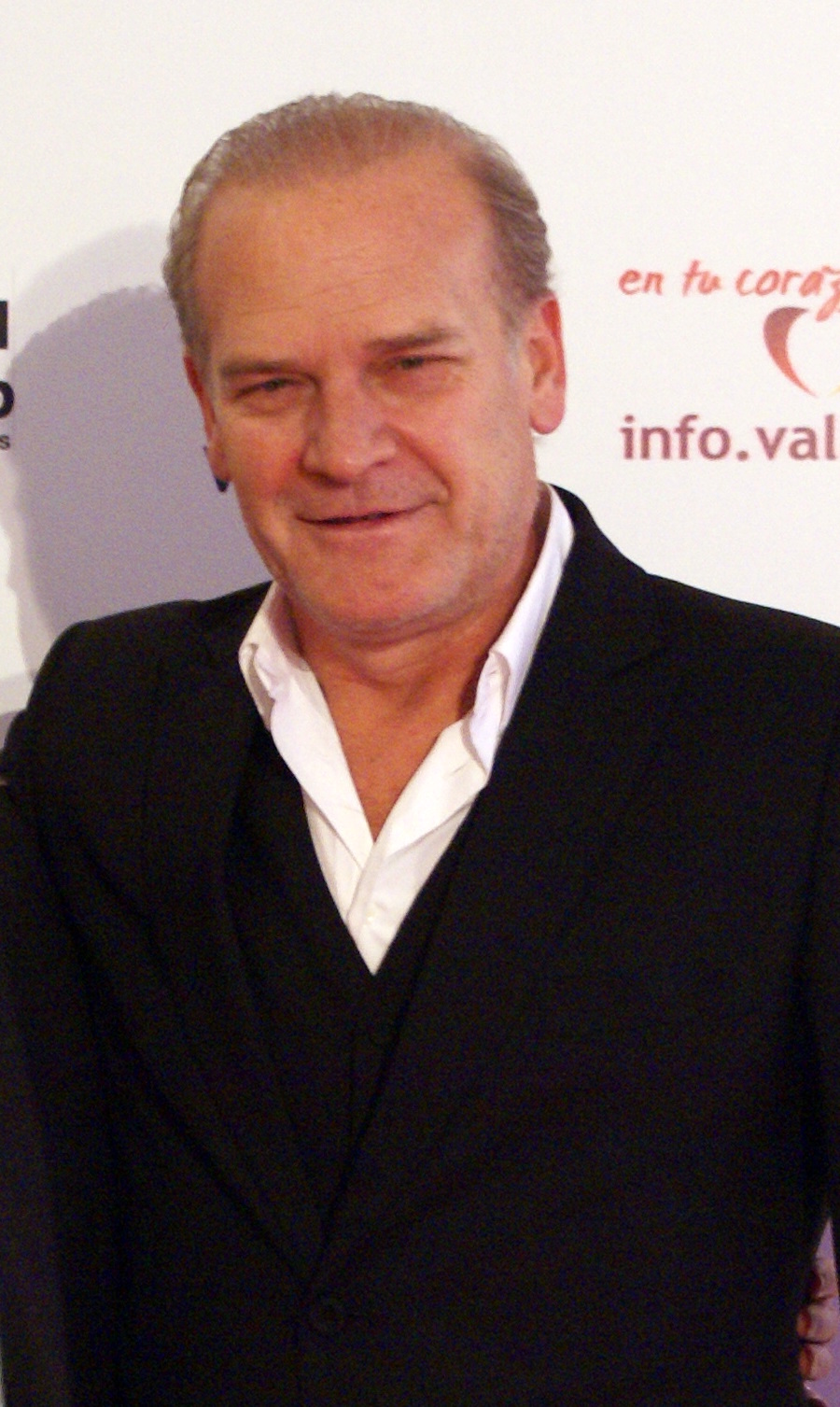 Lluís Homar, Spanish actor, at the Seminci 2011.